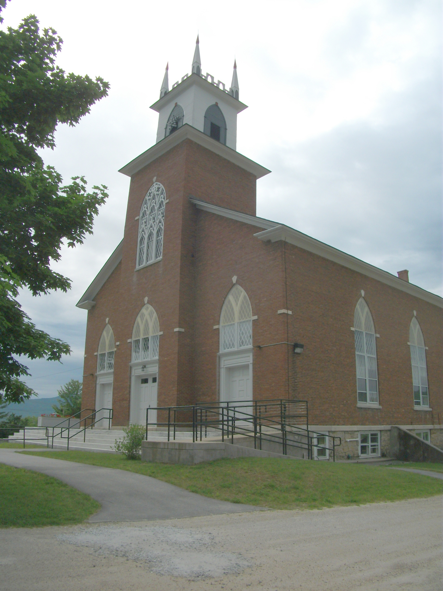 A Church in Pittsford, Vermont